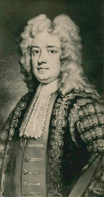 Robert Walpole prime minister of Britain (1721-1742)